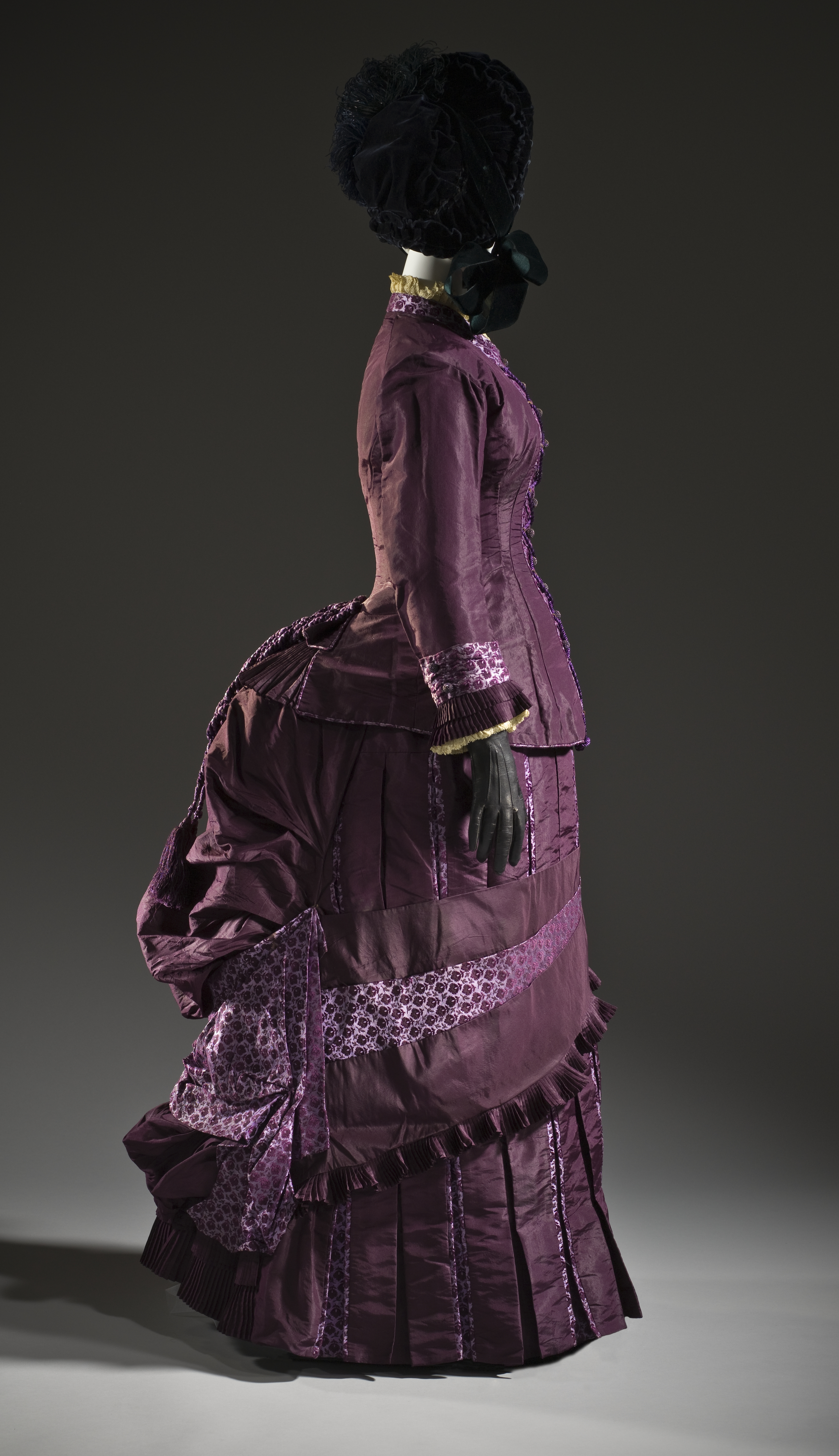 Woman’s 2-piece silk bustle dress, France, c. 1885 circa 1885